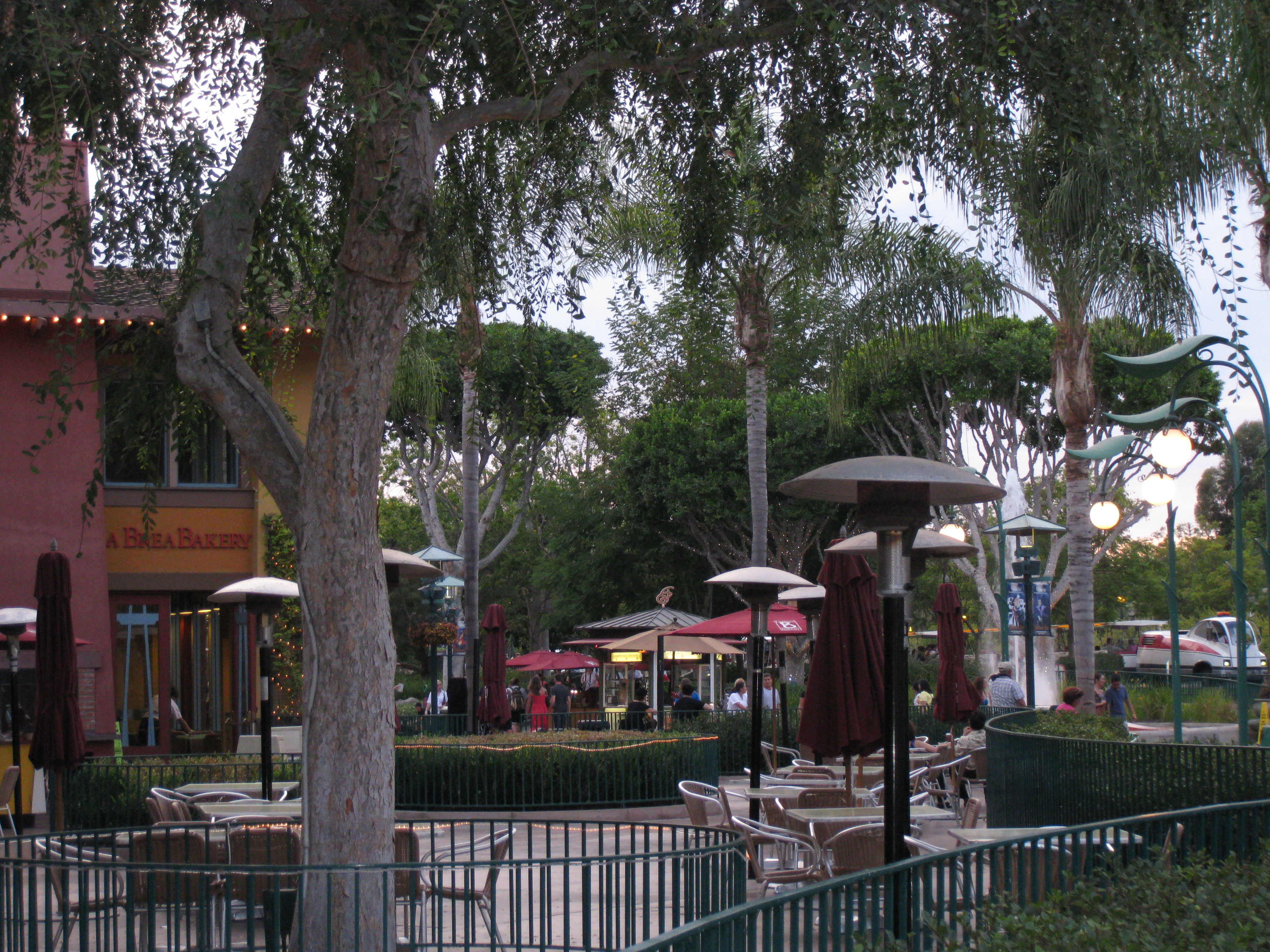 Downtown Disney California